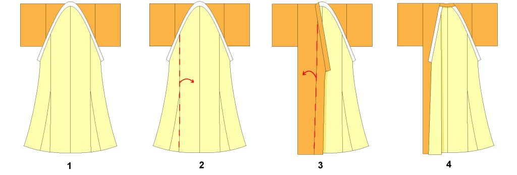 how to fold a kimono part 1